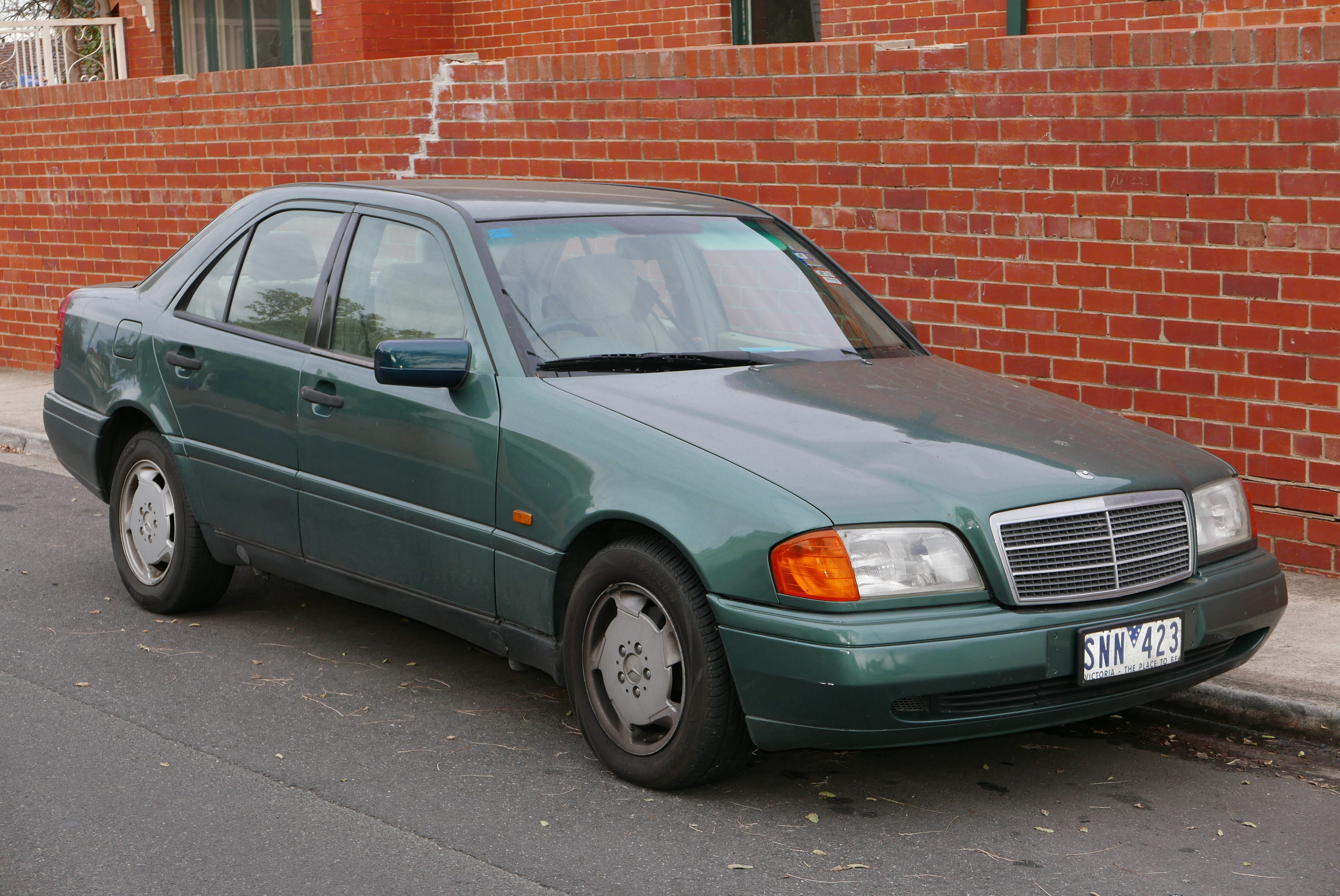 1994 Mercedes-Benz C 180 (W 202) Classic sedan. Although this is listed as the Classic trim level, it has been modified to look more like the Elegance. The orange turn signals integrated into the head and tail lamps (instead of clear) indicate that this is an Esprit or Classic. This car is missing the Elegance’s chrome highlight above the black door handles. Elegance models also featured a chrome highlight above the body coloured side strips and top portion of the bumpers, which this car lacks. Esprit and Classic trims had black plastic side strips without chrome highlights. This car appears to have had its black strips painted aftermarket, reinforced by the lack of chrome highlights and the absence of the trim level badge which would have been removed prior to painting. The alloy wheels appear to be from the Elegance but may have been an option when new for lower trims. Lastly, the beige interior colour scheme suggests this is a Classic as the Esprit had dark interior trim. Photographed in Northcote, Victoria, Australia. Vehicle registration enquiry results Jurisdiction Victoria Registration SNN423 Chassis code WDB2020182F052320 Engine code 11192022014807 Compliance date 1994-03 Year of manufacture 1994